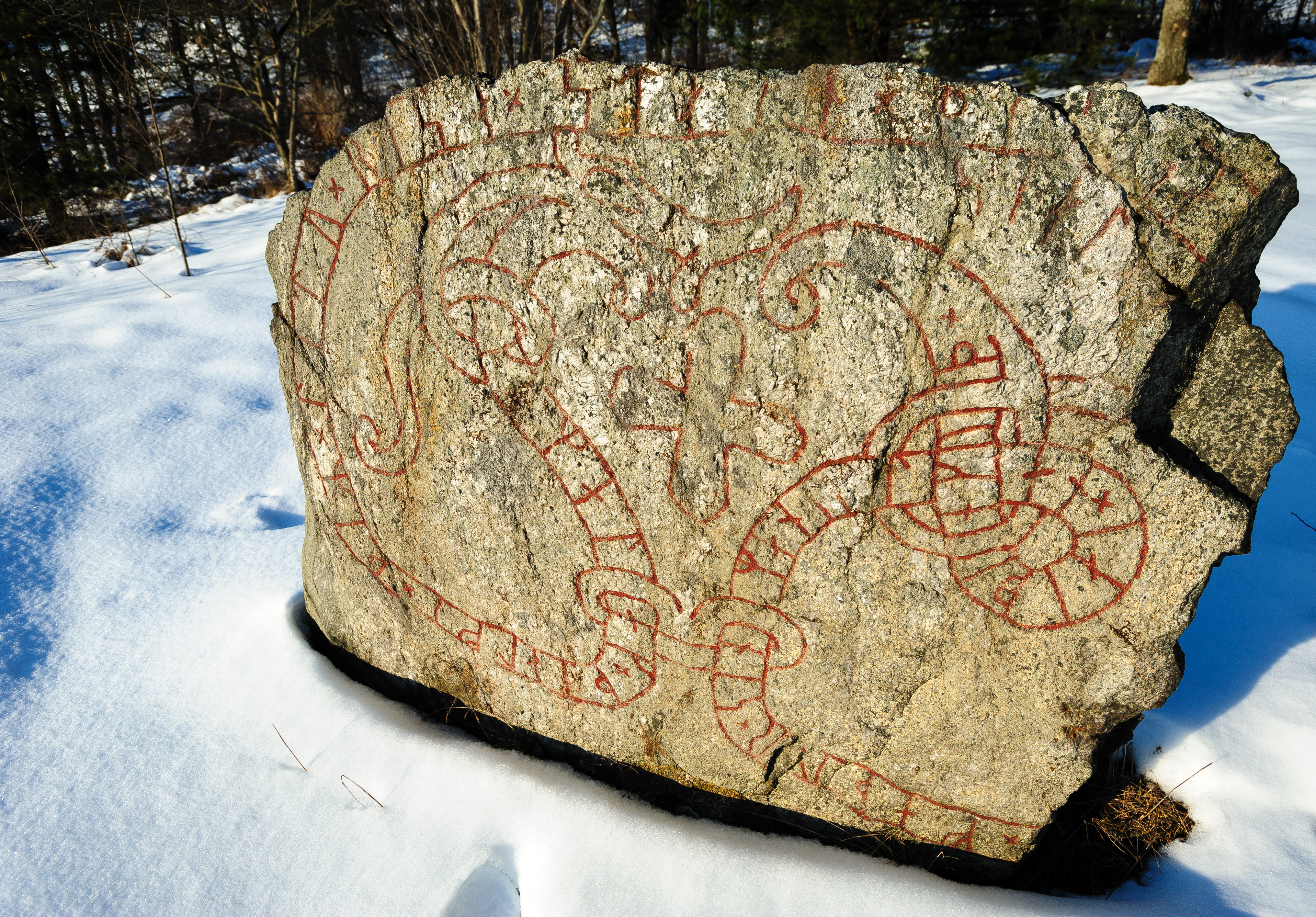 Runestone U 56 close to Bromma airport.